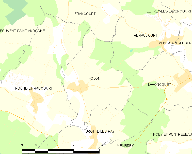 Map of French municipality